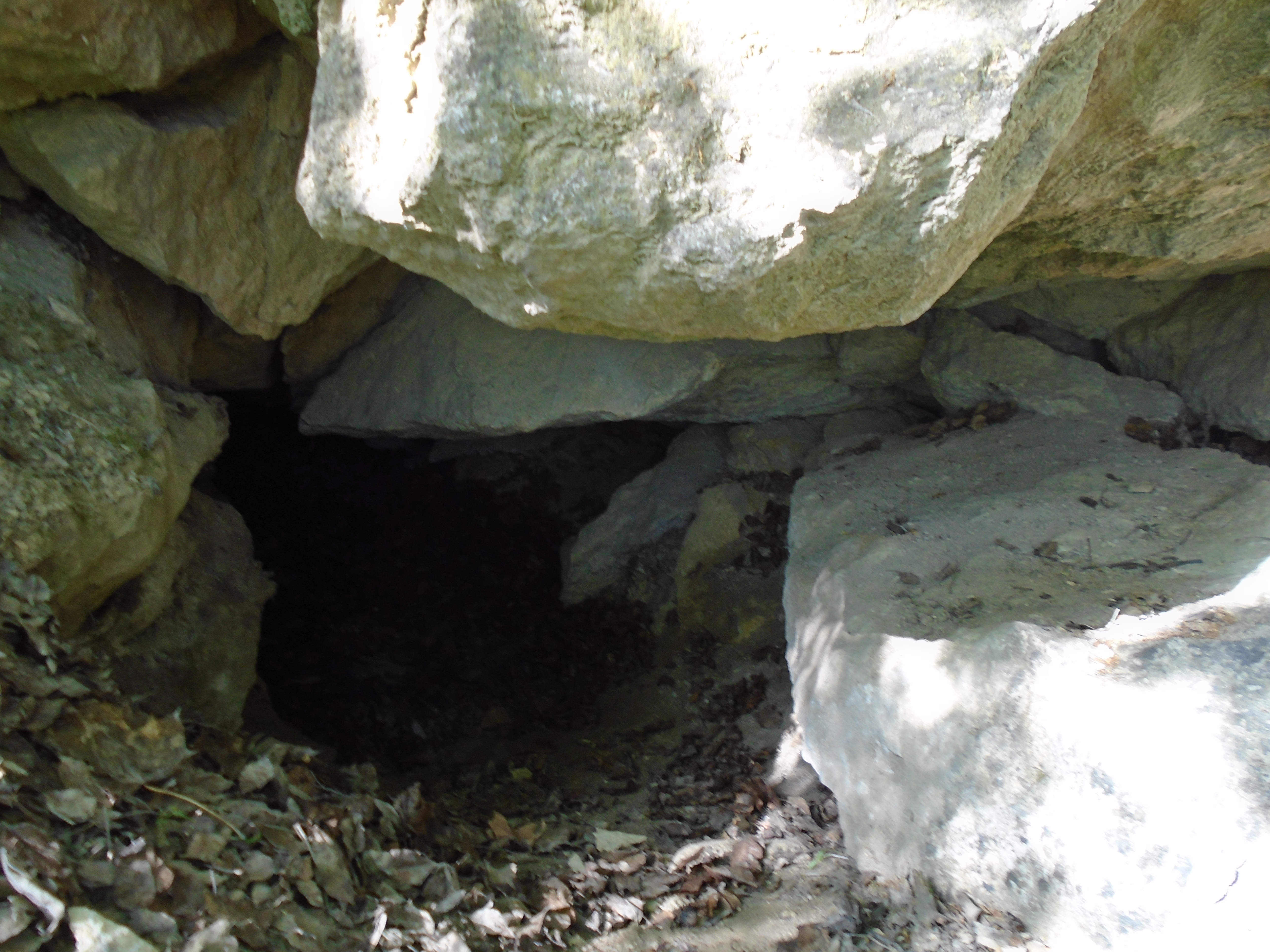 Entrance of Keleti quarry No 14 Cave.